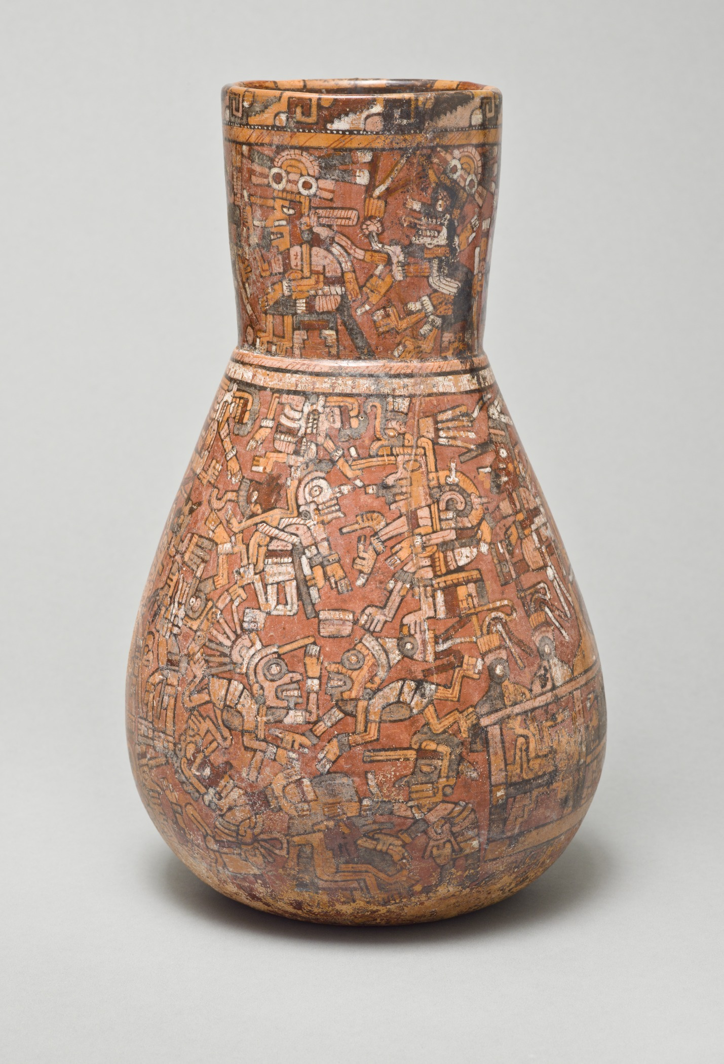 Mexico, West Mexico, Nayarit, Mixteca-Puebla or International style, 1350-1500 Furnishings; Serviceware Slip-painted ceramic Purchased with funds provided by Camilla Chandler Frost (M.2000.86) Art of the Ancient Americas